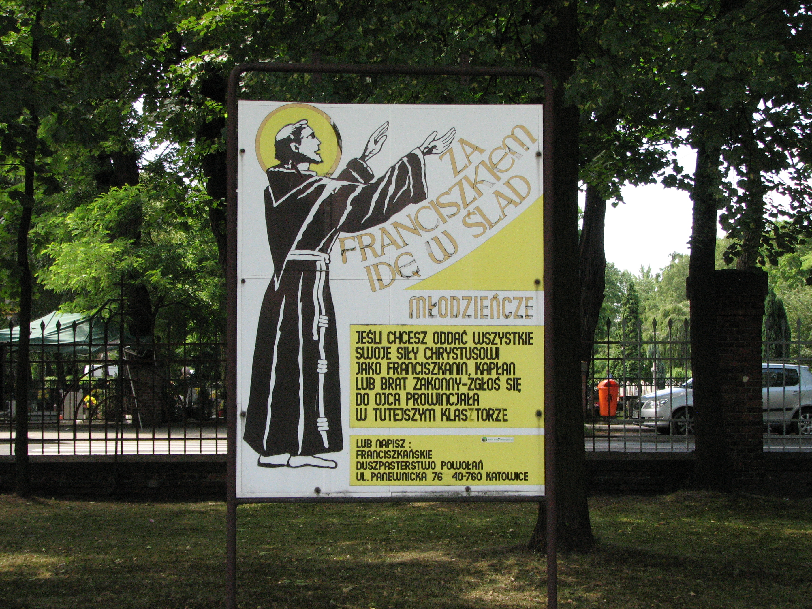 Religious poster on the Klasztorny Square in Katowice Panewniki, Poland